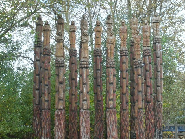 Bilston Totem A Statue in Oxford Street near Black Country Route.